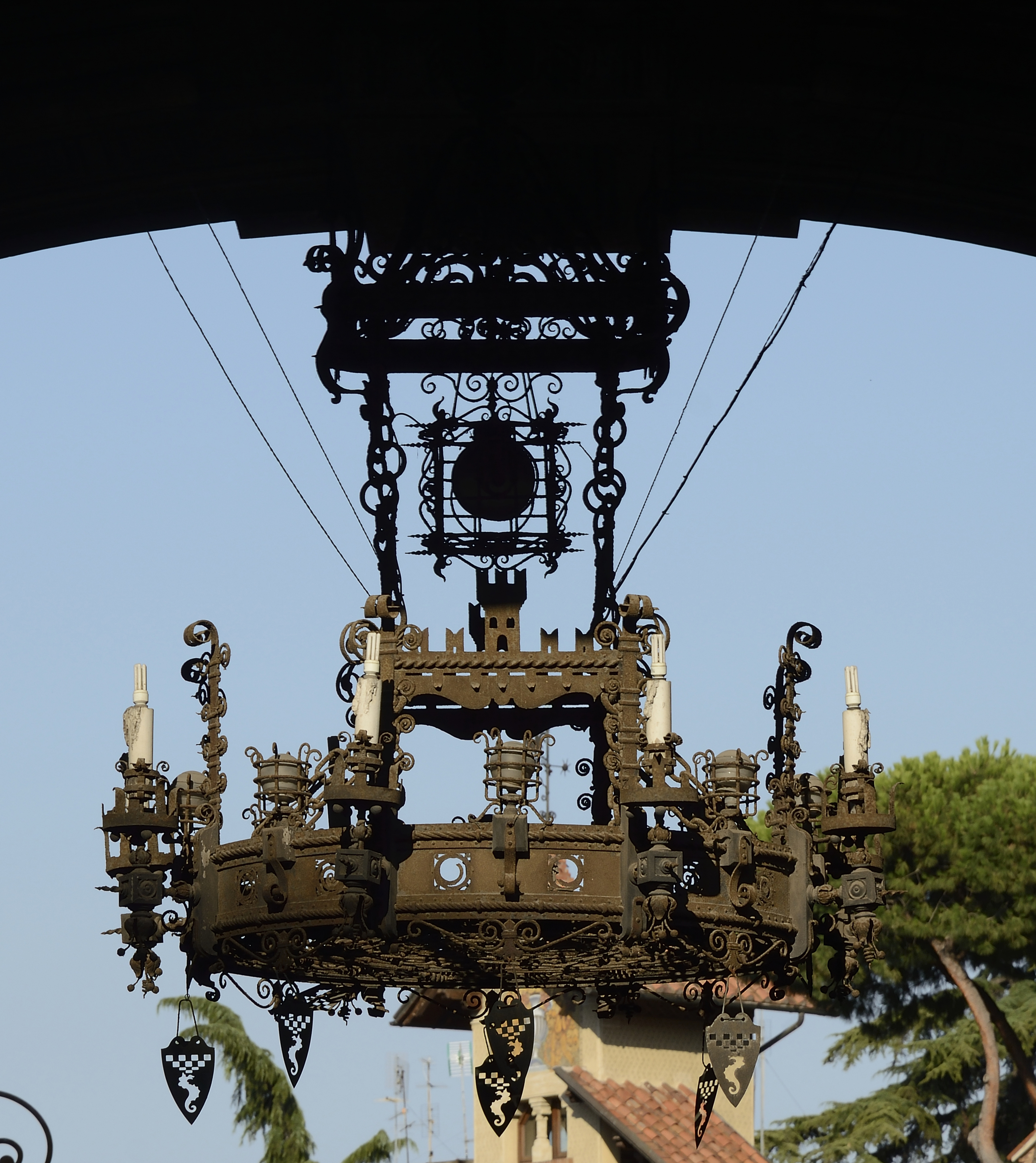 Lampadario Quartiere coppedè